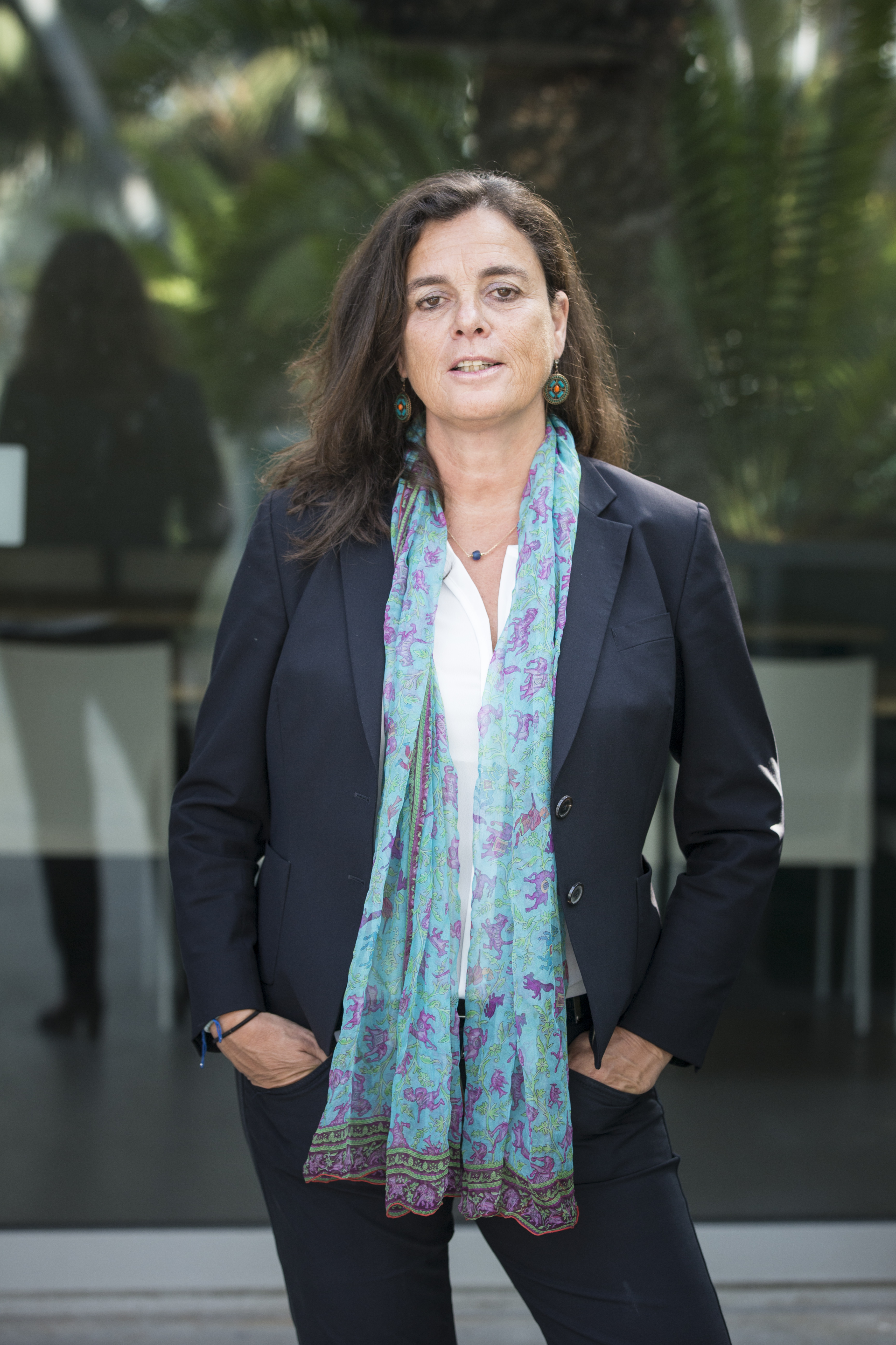 Dutch archeologist Corinne Hofman (2014)